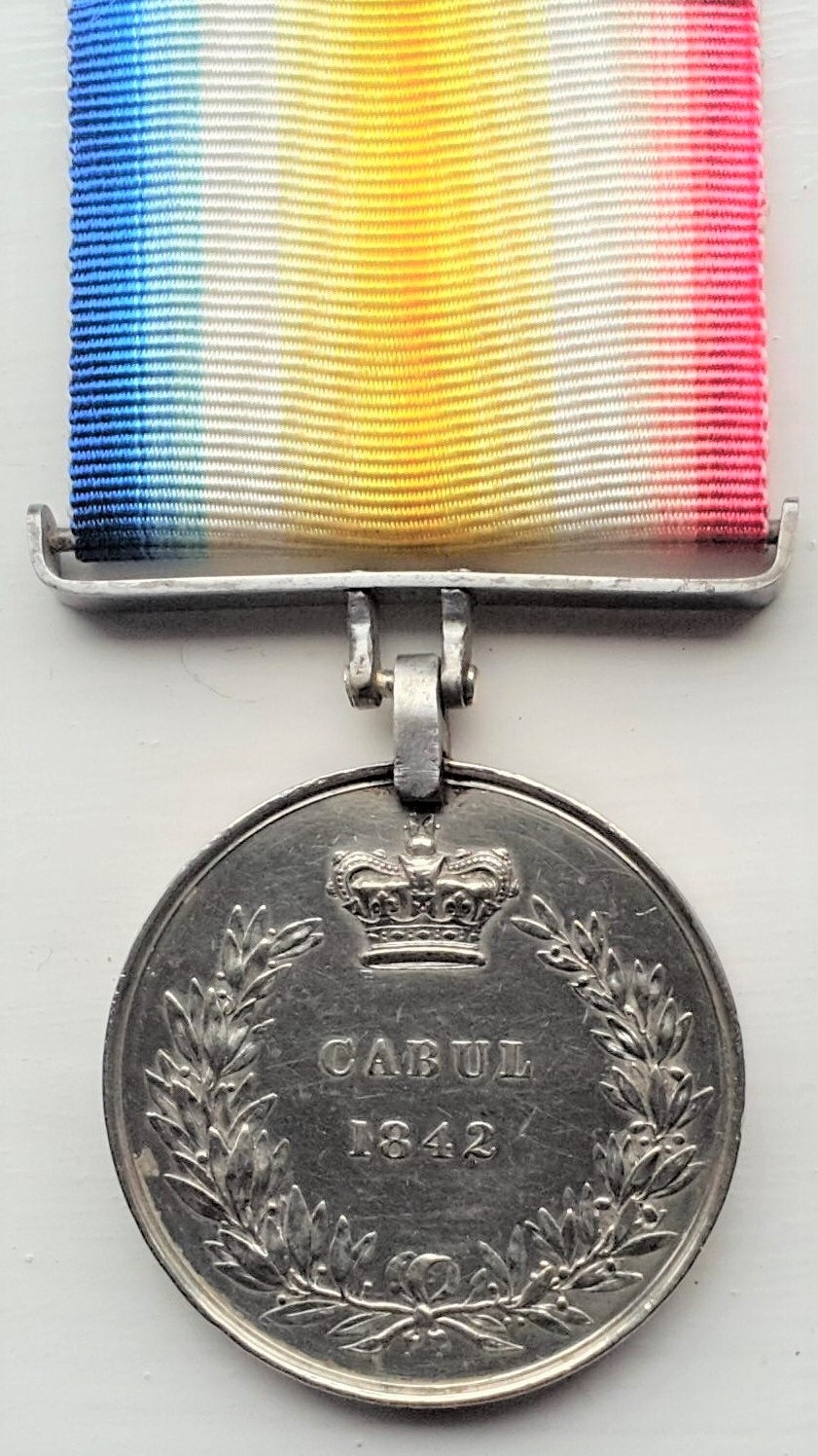 British campaign medal for the First Afghan War, reverse for Cabul 1942